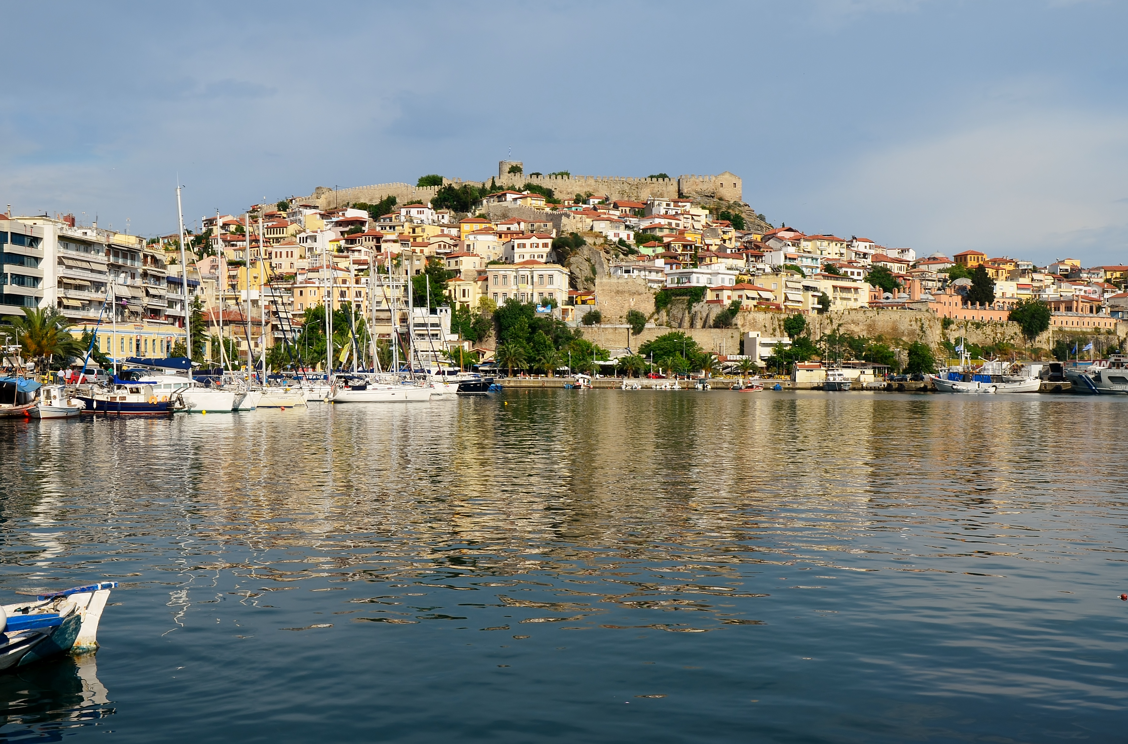 Kavala